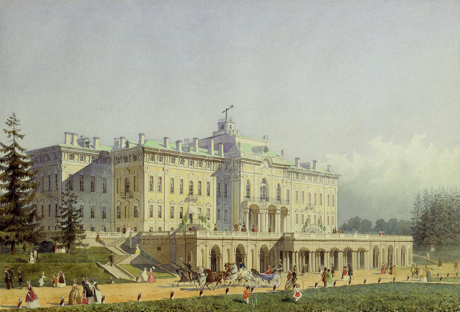 Painting “Palace in Strelna”. Series “Views of St Petersburg and Moscow”, produce as a gift to Queen Victoria on the occasion of the 10th anniversary of her reign. Watercolour and gouache, 25.7x38 cm. State Hermitage. Gift of Queen Elizabeth II to the Chairman of the USSR Supreme Council K. E. Voroshilov, 1956